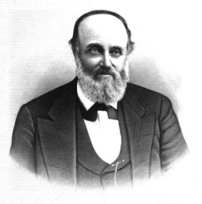 William N. Bell, after whom Seattle, Washington's Belltown is named.